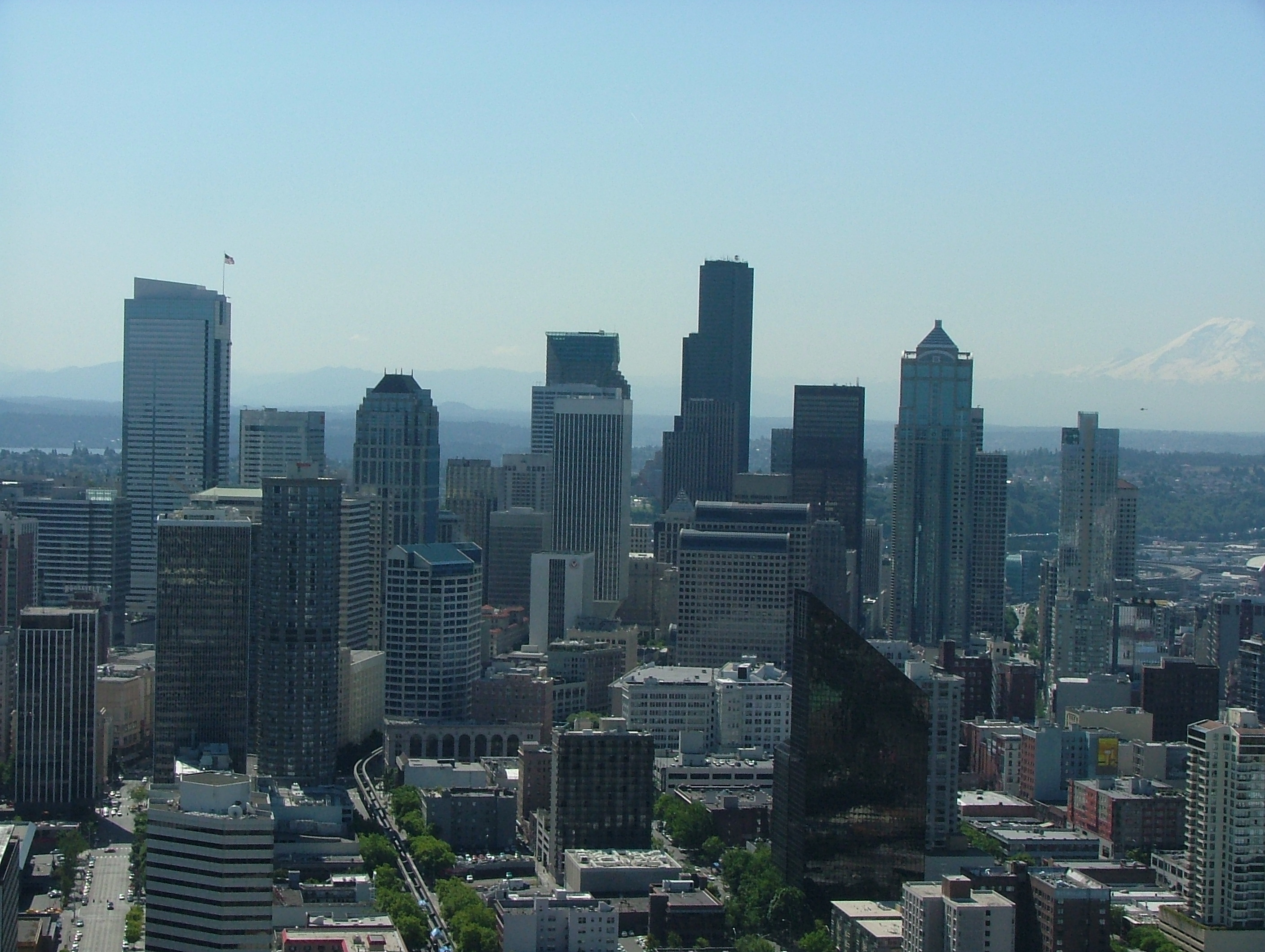 Downtown Seattle, seen from Space Needle